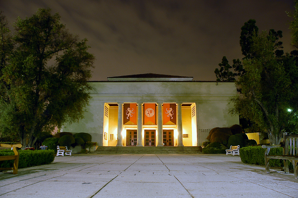 Thorne Hall at Occidental College in Los Angeles, California.